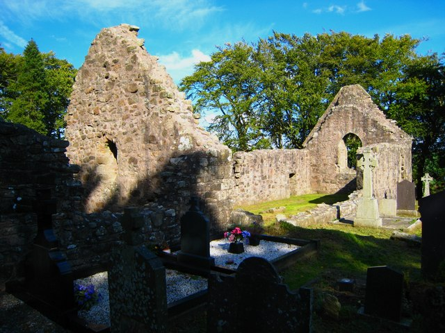 Killevy Old Church Killevy Old Churches: Located on the eastern slopes of Slieve Gullion, Killevy is the reputed site of an important Early Christian Convent founded by St Moninna (also known as Darerca or Bline) in the early 6th century. Although there are no remains of the early wooden church buildings, there are two stone churches at the site. The earlier West Church has an imposing 10th or 11th Century doorway and a slightly later round headed east window. While the East Church is medieval, with a 15th Century east window complete with weathered carved heads. Information from